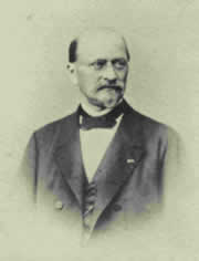 Franz Seraph von Pfistermeister, State Council of the Kingdom of Bavaria from 1864 to 1895.